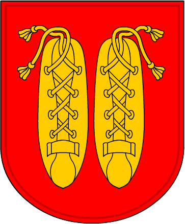 Coat of arms of the Abarca family